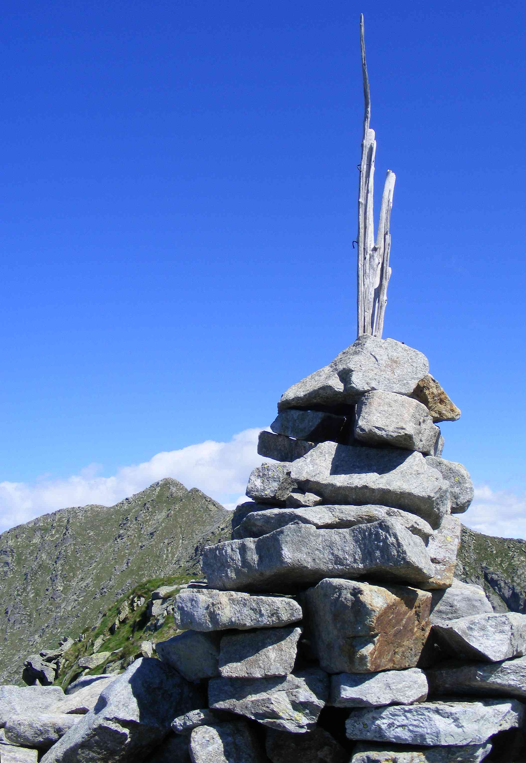 Punta del Cravile (Pennine Alps, BI, Italy): summit cairn, in the background mount Bo